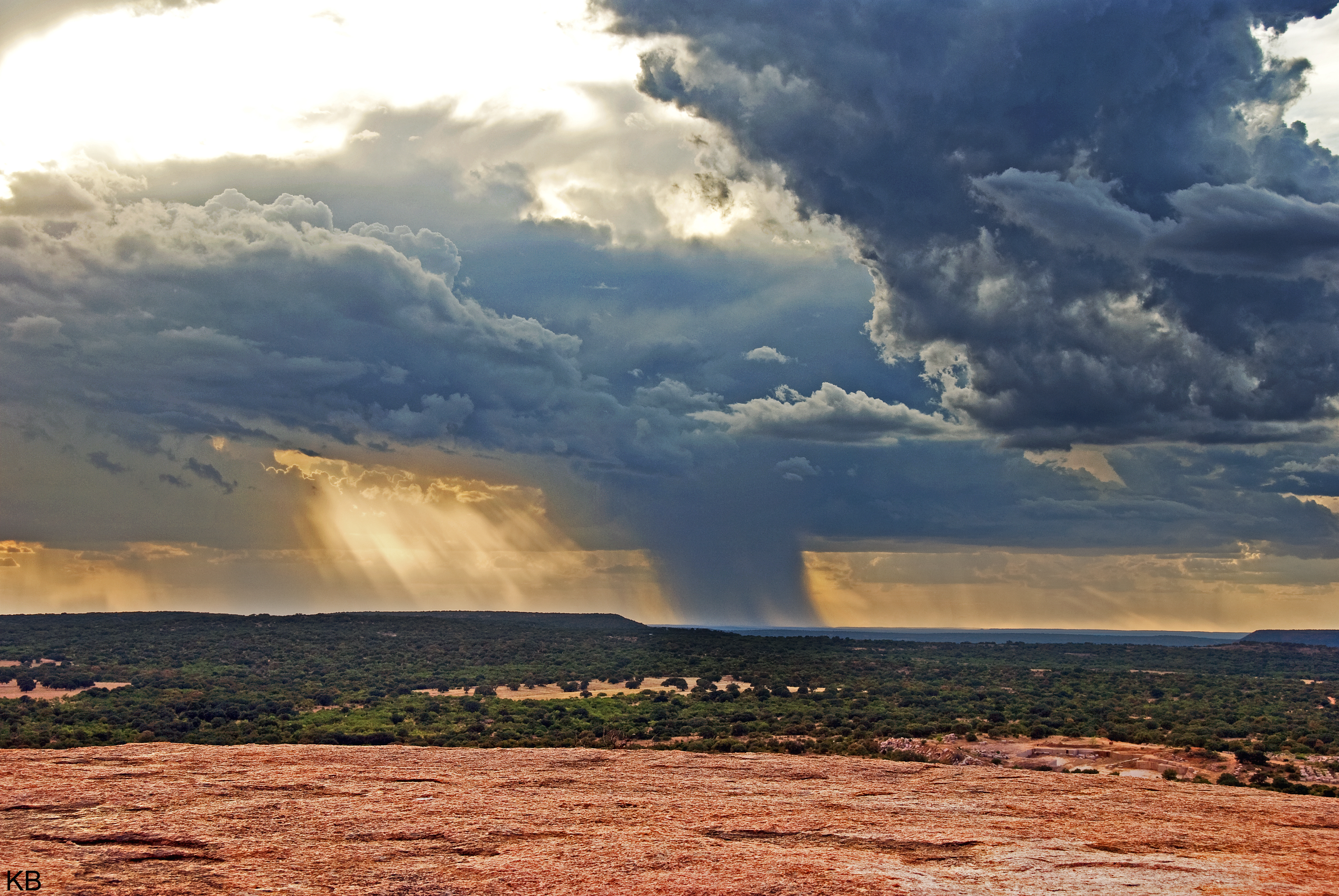 I was thinking that with Hurricane Dolly we'd get some pretty substantial rain and cloud-action up this way (Austin, TX). We did...and the best place I could think for awesome landscape shots was atop Enchanted Rock in Fredericksburg, TX (an hour West). It's about 425 feet above ground overlooking the TX hill country. Anyway... It was a torrential downpour most of the way there, but after the drive and a 20'ish minute hike we reached the top just in time to catch a storm in the distance. I have so many awesome shots from today...so hard to chose which ones to upload!